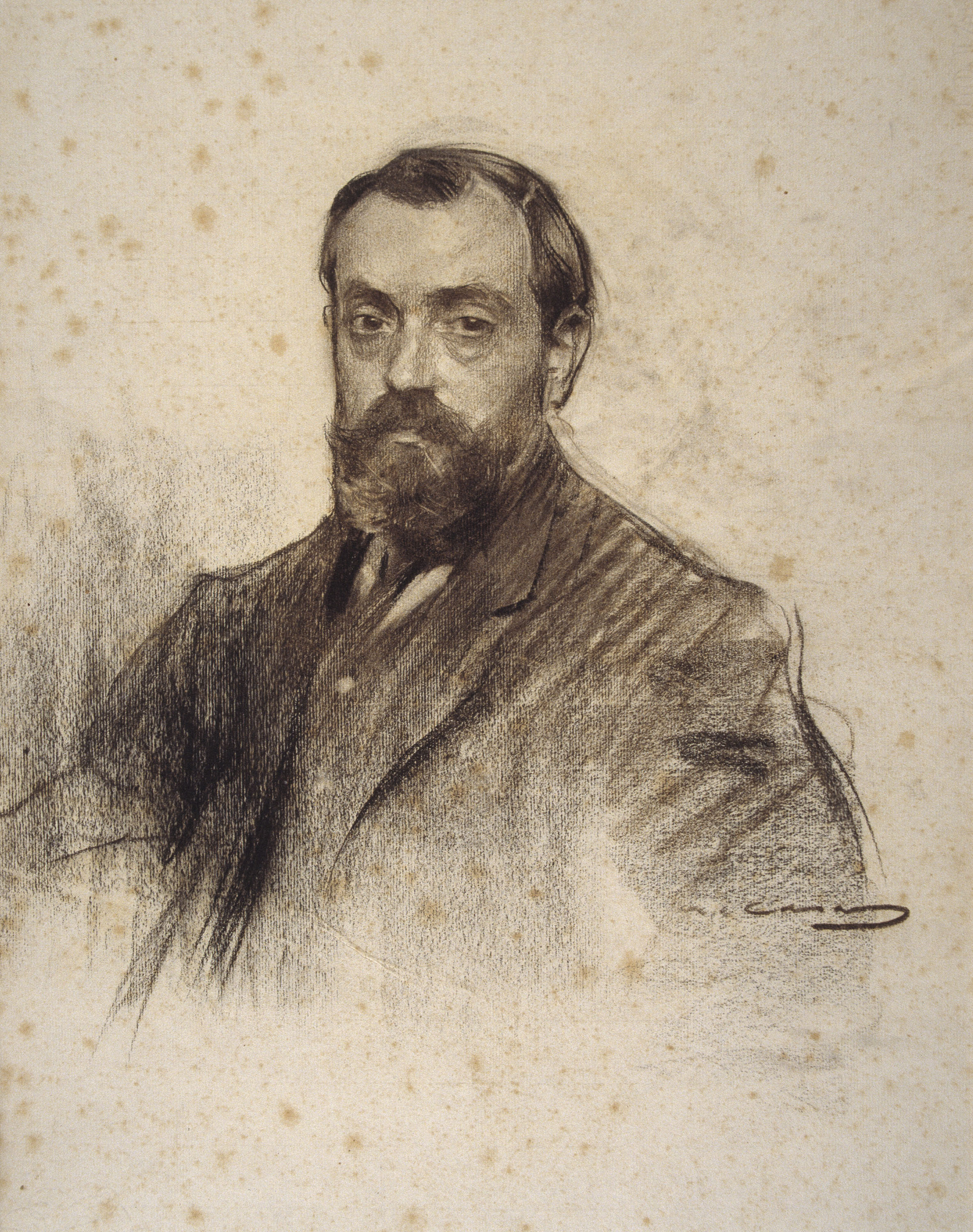 Portrait by Ramon Casas conserved at MNAC in Barcelona. Imagen 071